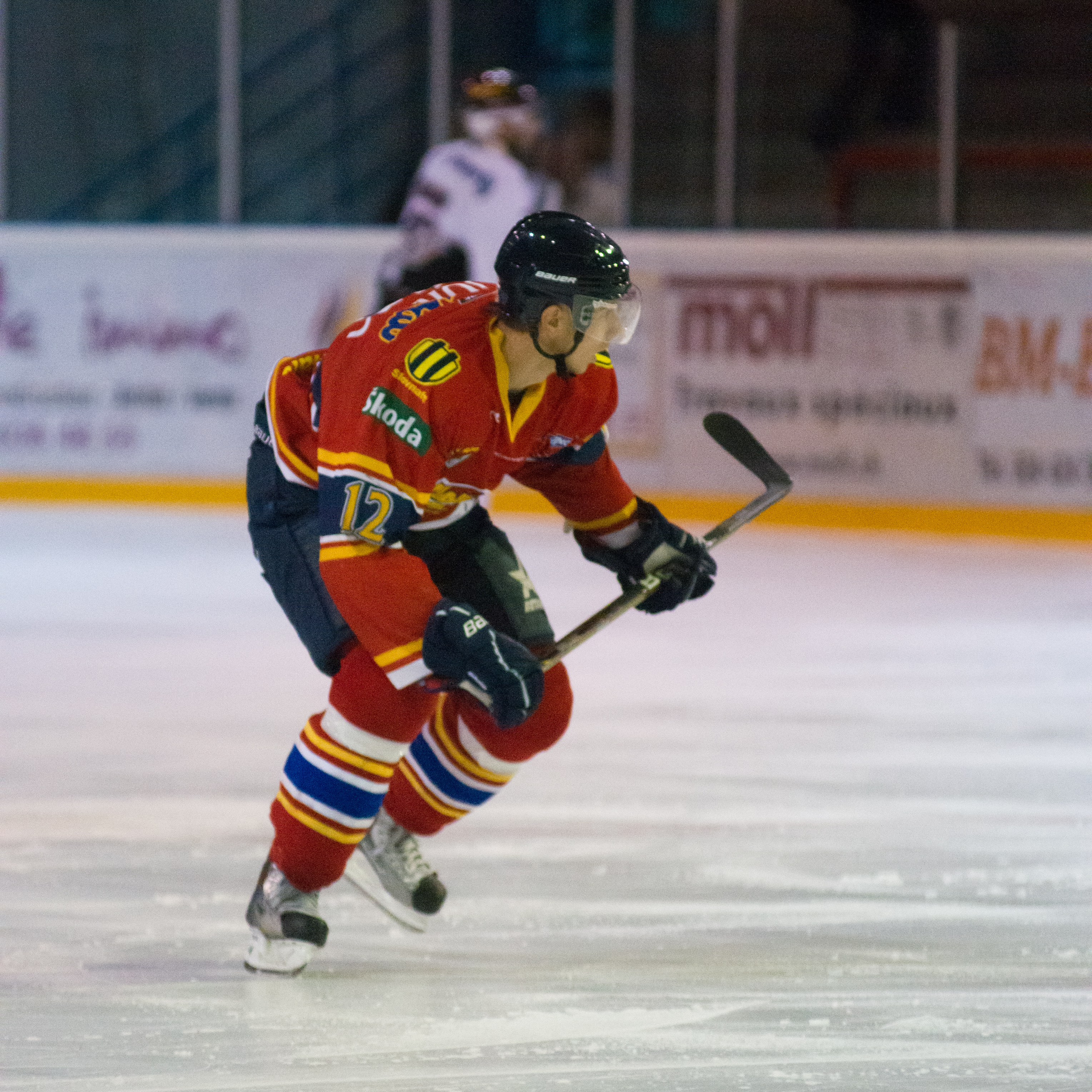 Festyvhockey 2010, Yverdon-les-Bains. The making of this document was supported by Wikimedia CH. (Submit your project!) For all the files concerned, please see the category Supported by Wikimedia CH.